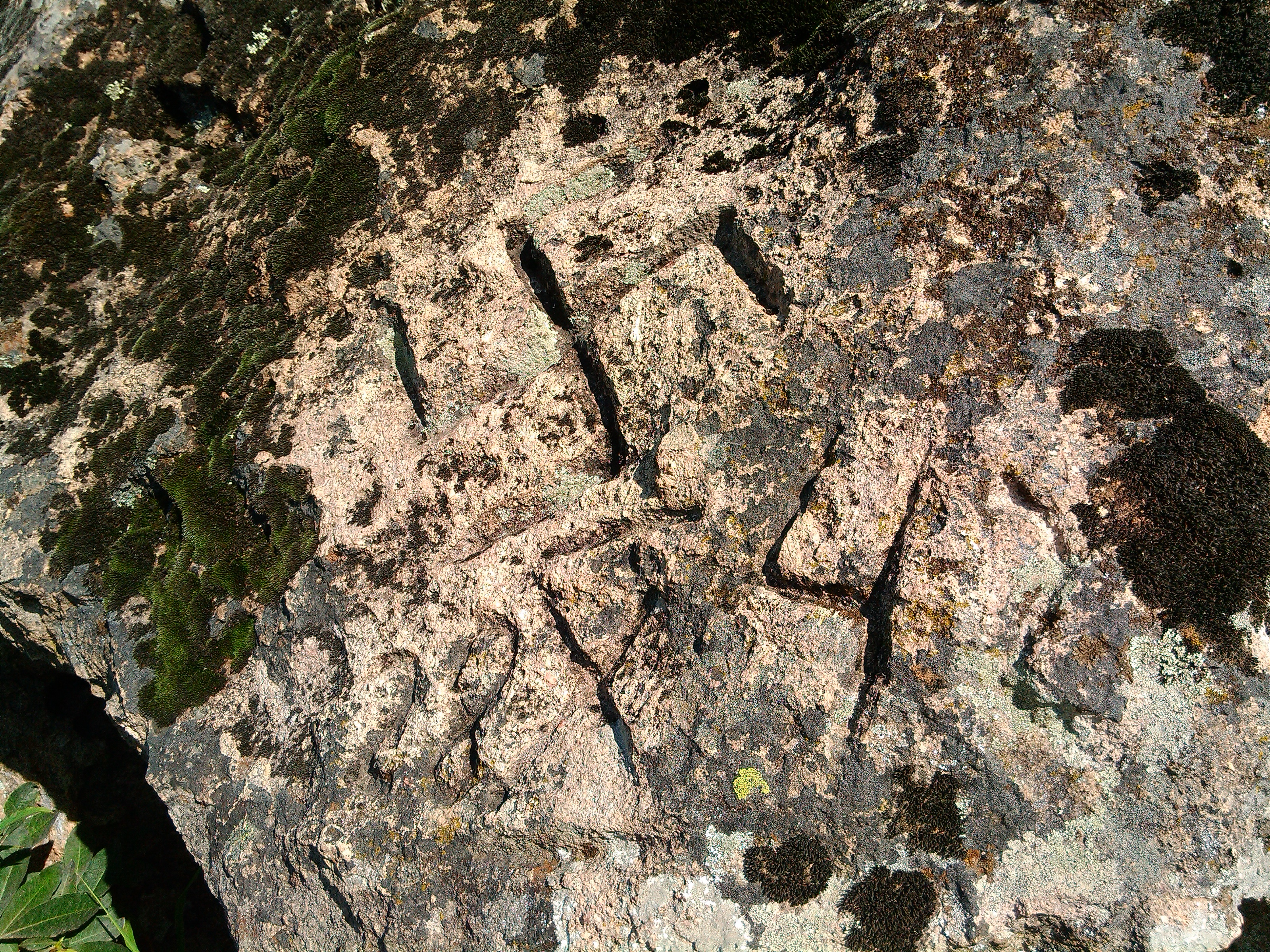 Swastika cut in rock over Baksan valley with date 28-10-1942.